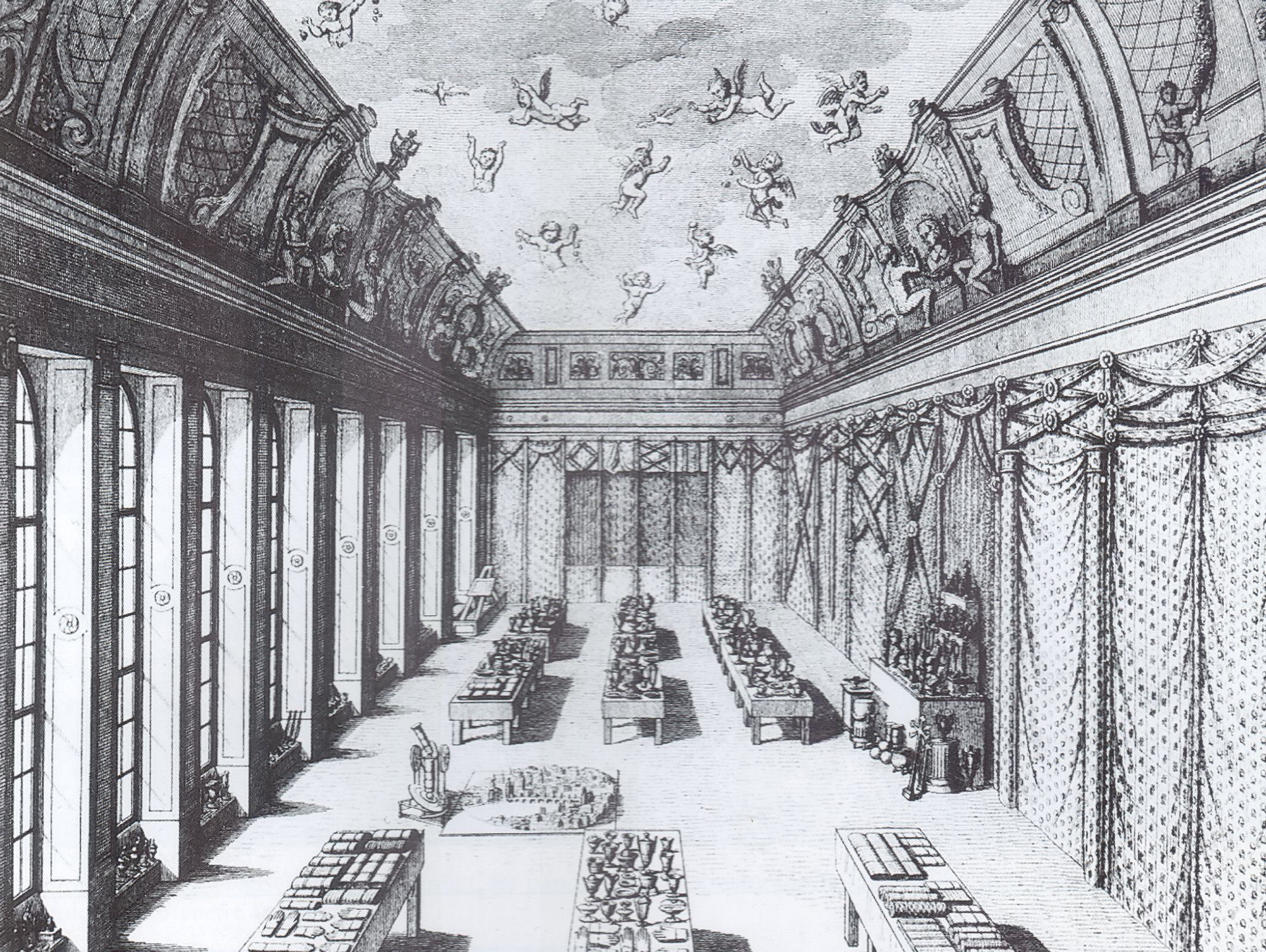 Industrial exhibition in Prague, 1833, German hall of Prague Castle